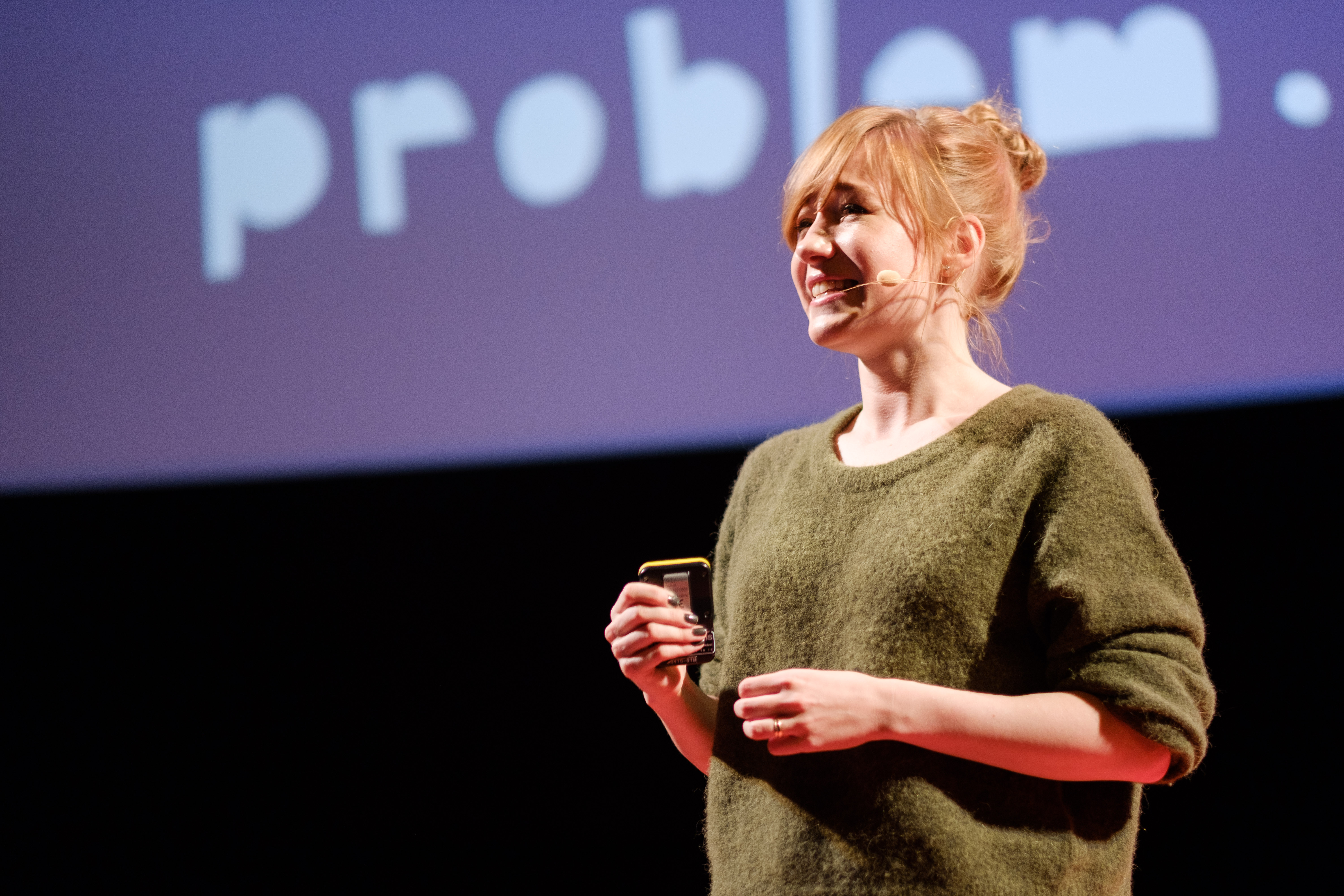 The European Data of Tomorrow Conference was both an educating and inspiring event about information, data and all its relevant, innovative and value-adding aspects. Data of Tomorrow gave attendees a glimpse of the future of Master Data Management (MDM), technology and industry trends – and the tools to shape it. The conference took place on September 20 and 21 in the EYE filmmuseum in Amsterdam, The Netherlands.